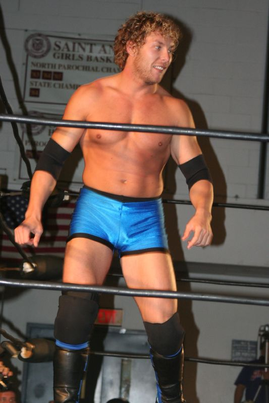 Professional wrestler Kenny Omega at a Jersey All Pro Wrestling show in November 2008